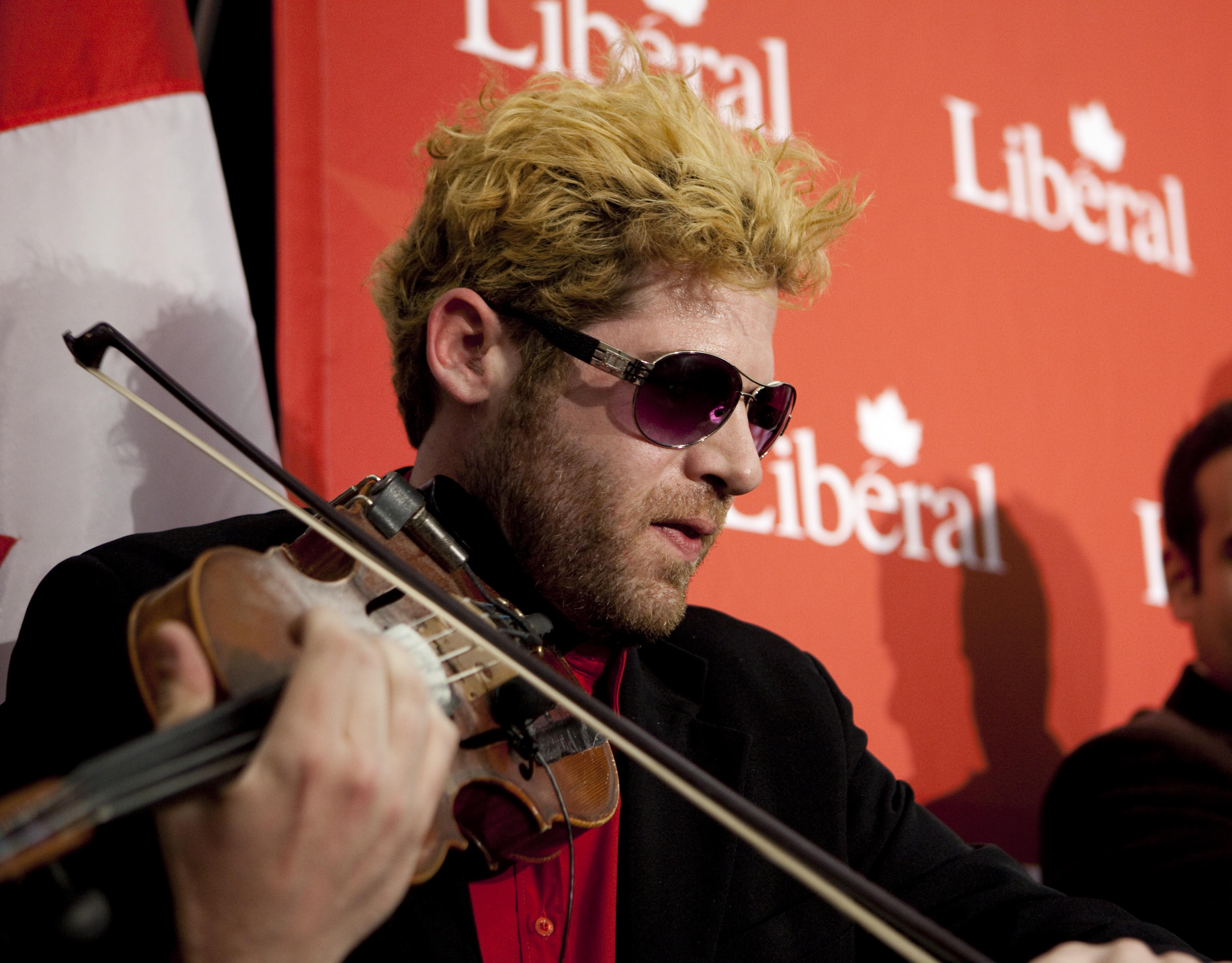 April 20, 2011: Liberal leader Michael Ignatieff and fiddler Ashley MacIsaac attend a Liberal campaign rally in Yarmouth, NS, with 500 supporters.